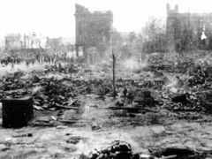 Center of Nagaoka City which became a burned land in Nagaoka Air Raid.